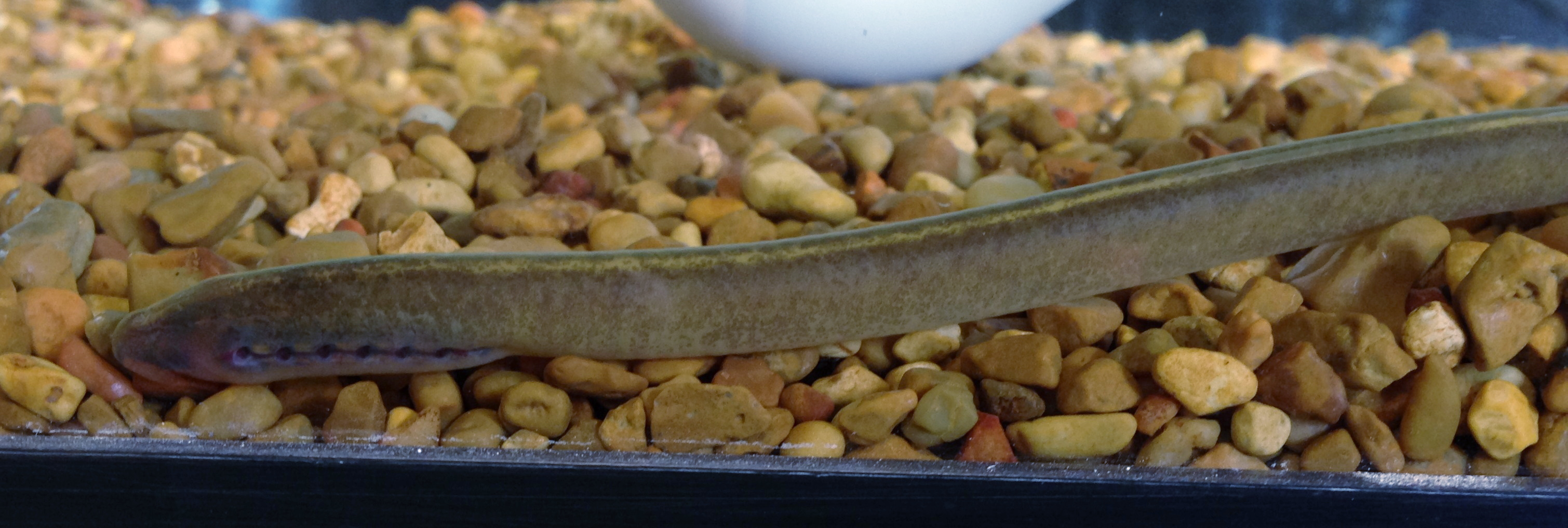 A juvenile Lampetra aepyptera (least brook lamprey) in an aquarium at the University of Mississippi Field Station.